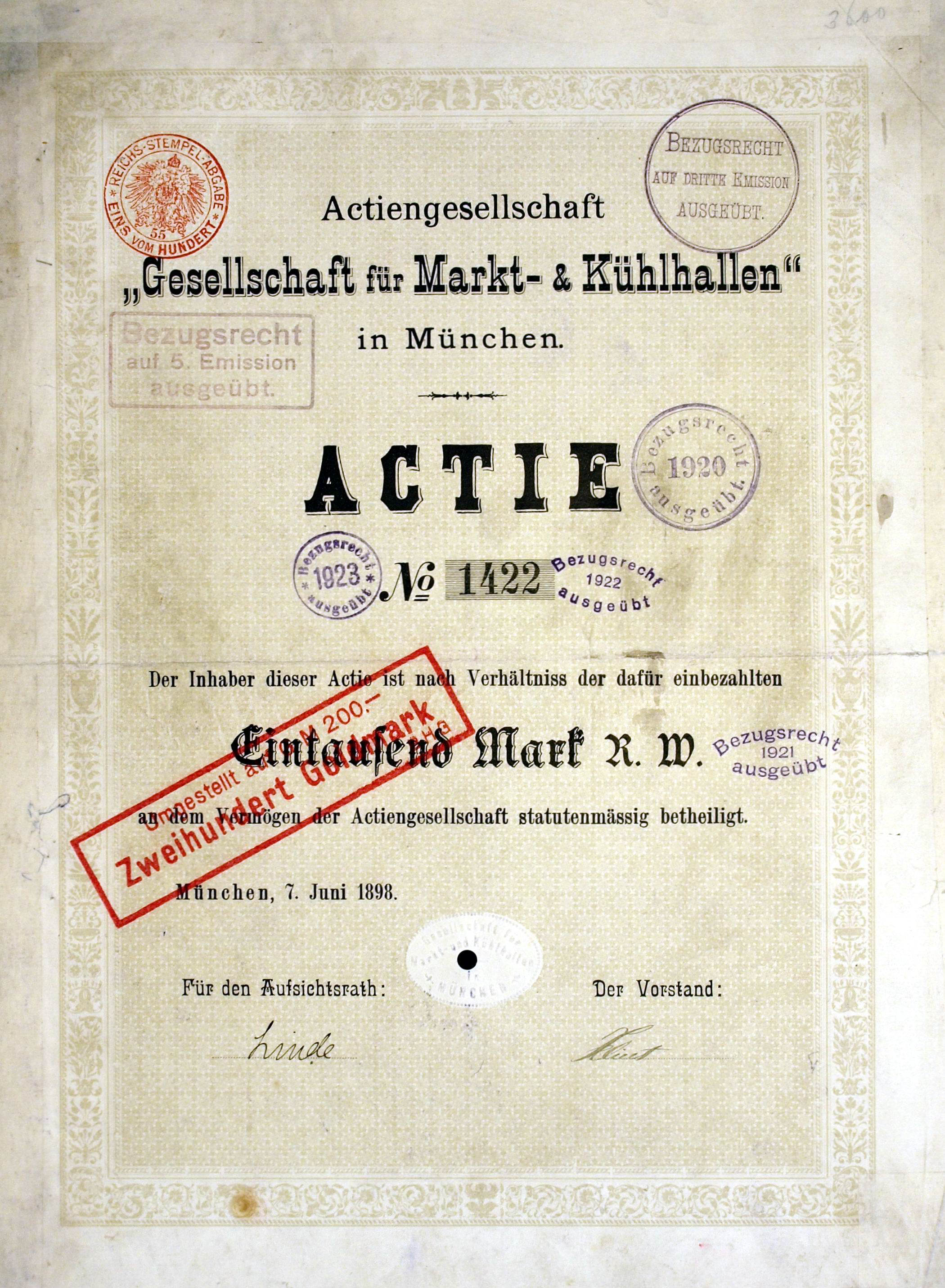 Share of the Gesellschaft für Markt- und Kühlhallen, issued 7. June 1898; signed by Carl von Linde